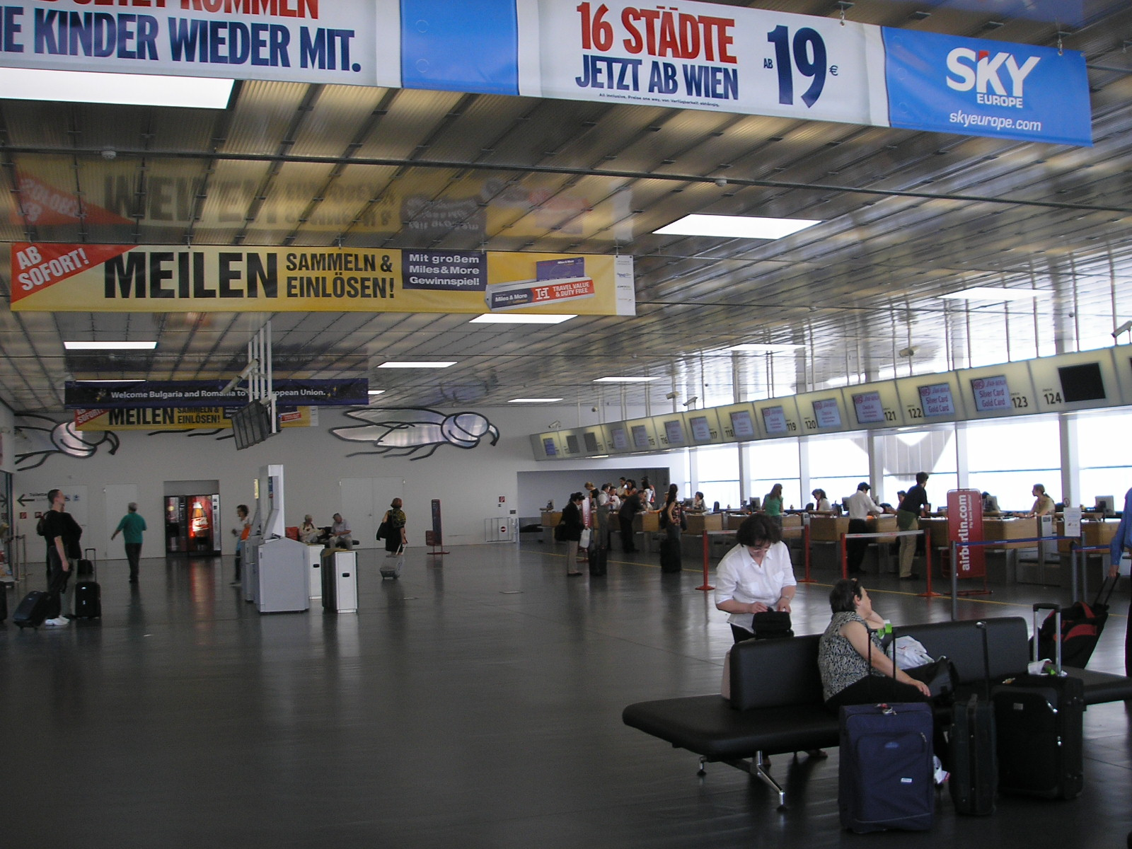 Interior view of Terminal 1A of Vienna International Airport.